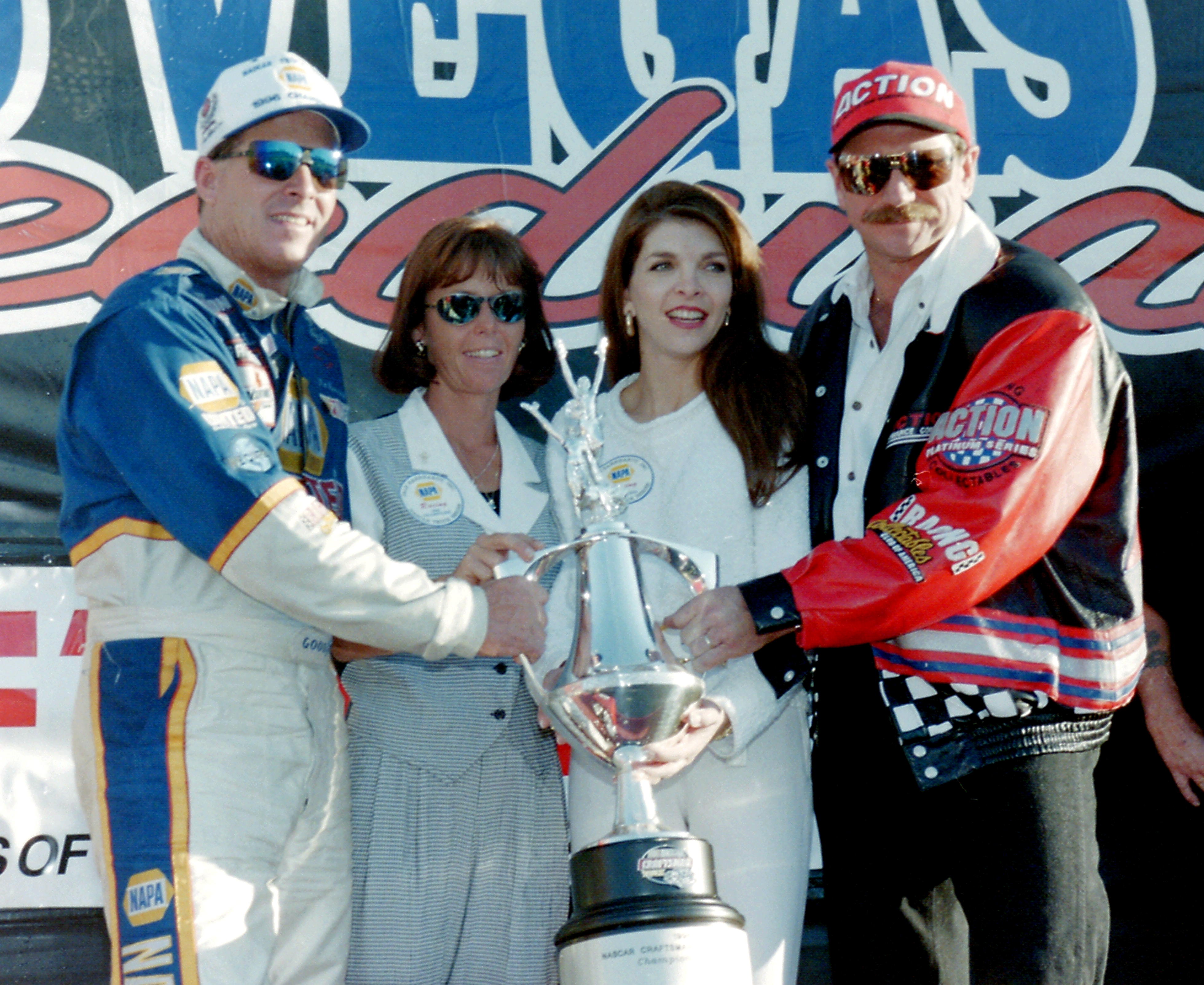 Ron Hornaday, Jr., Lindy Hornaday, Teresa Earnhardt and Dale Earnhardt celebrate Ron Hornaday Jr.'s 1996 NASCAR Craftsman Truck Series championship at Las Vegas Motor Speedway